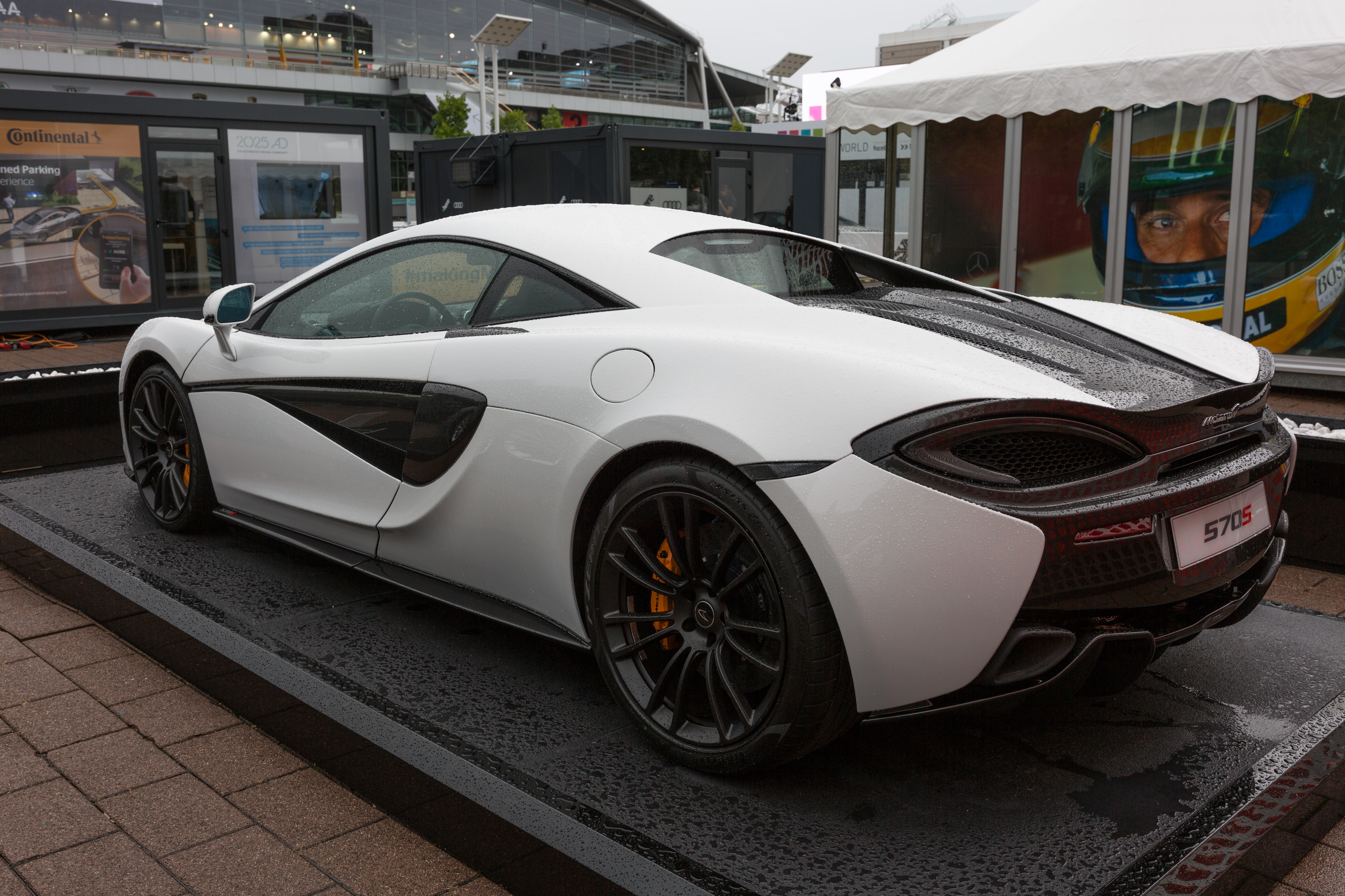 McLaren 570S, IAA 2017